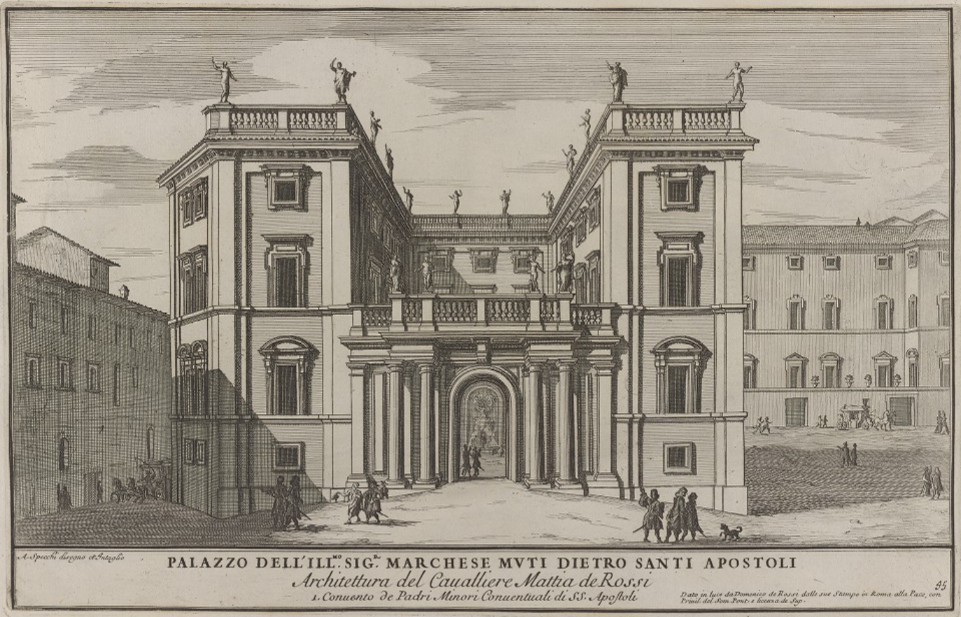 View of the Palazzo Marchese, Rome, Italy.